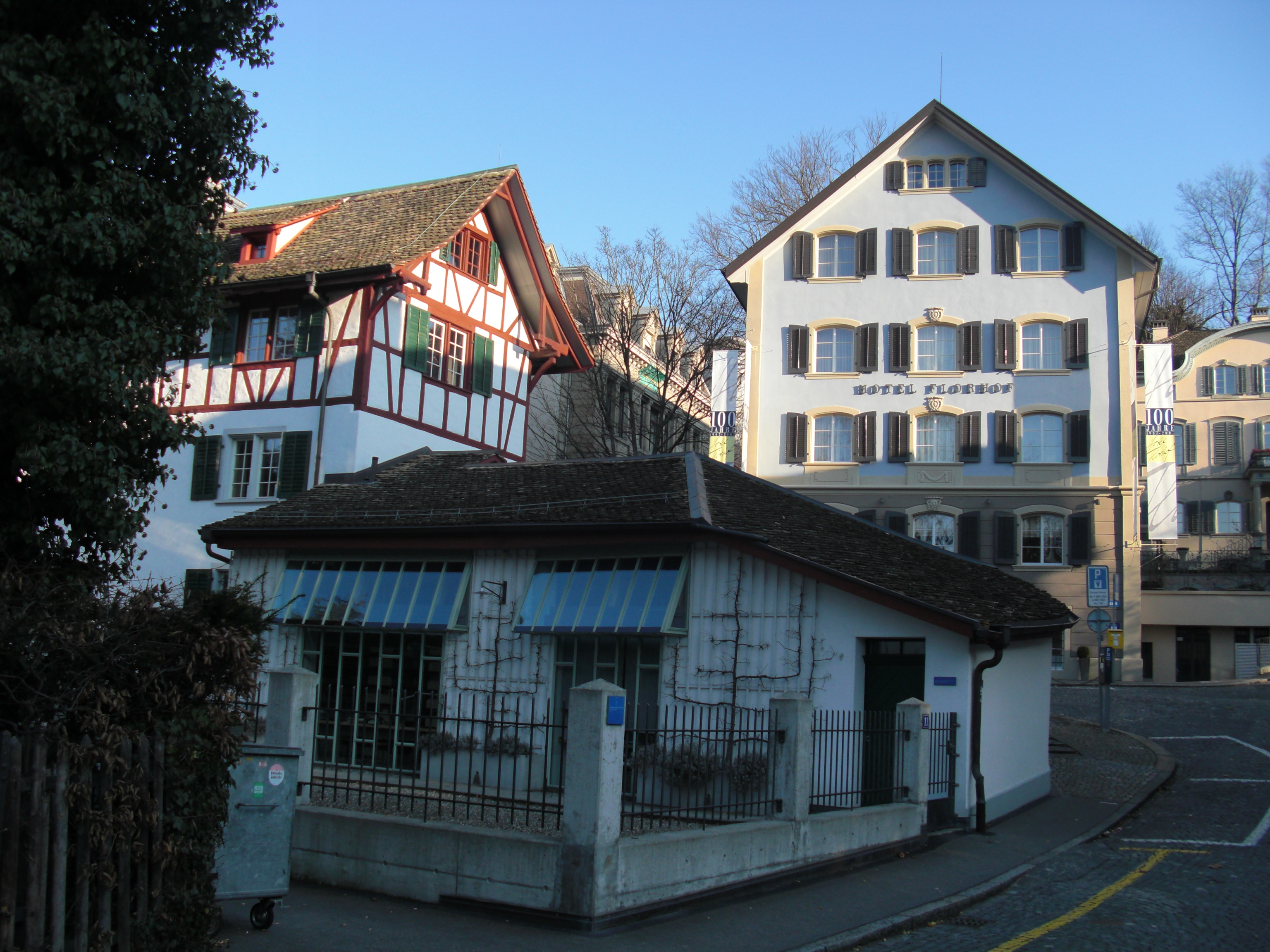 Hotel Florhof, Zurich, Switzerland, view from southwest